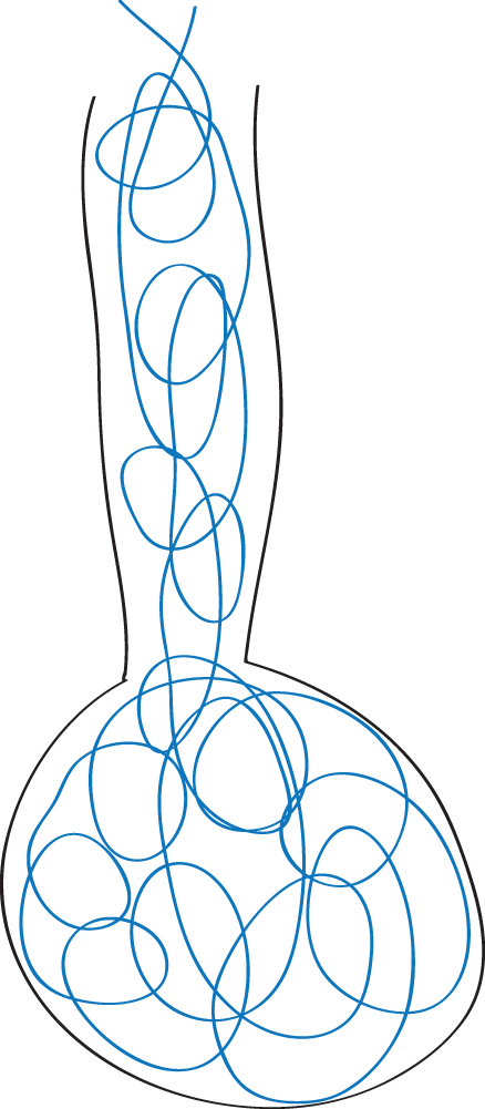 Drawing of air movement during high frequency oscillation ventilation